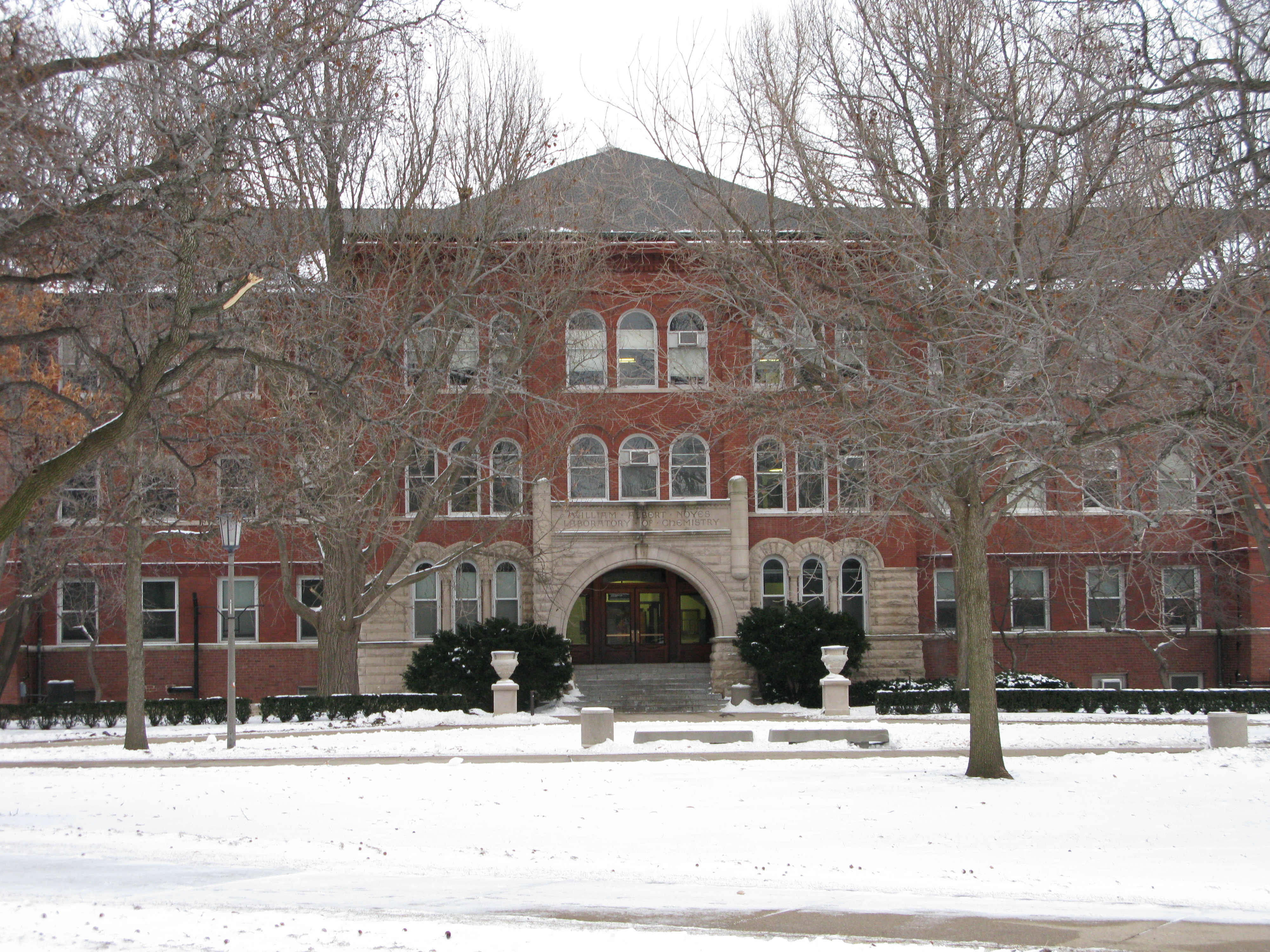 Noyes Laboratory, west side, UIUC main campus